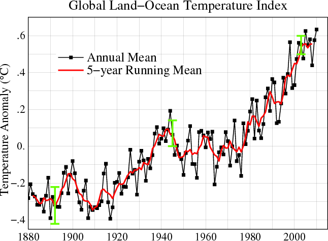 This graph shows the development of global average surface temperatures since 1880.